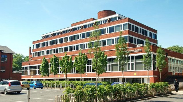 Administration Building, Queen's University, Belfast. The Queen's University Administration Building, in College Park, opposite the new library 1298399.